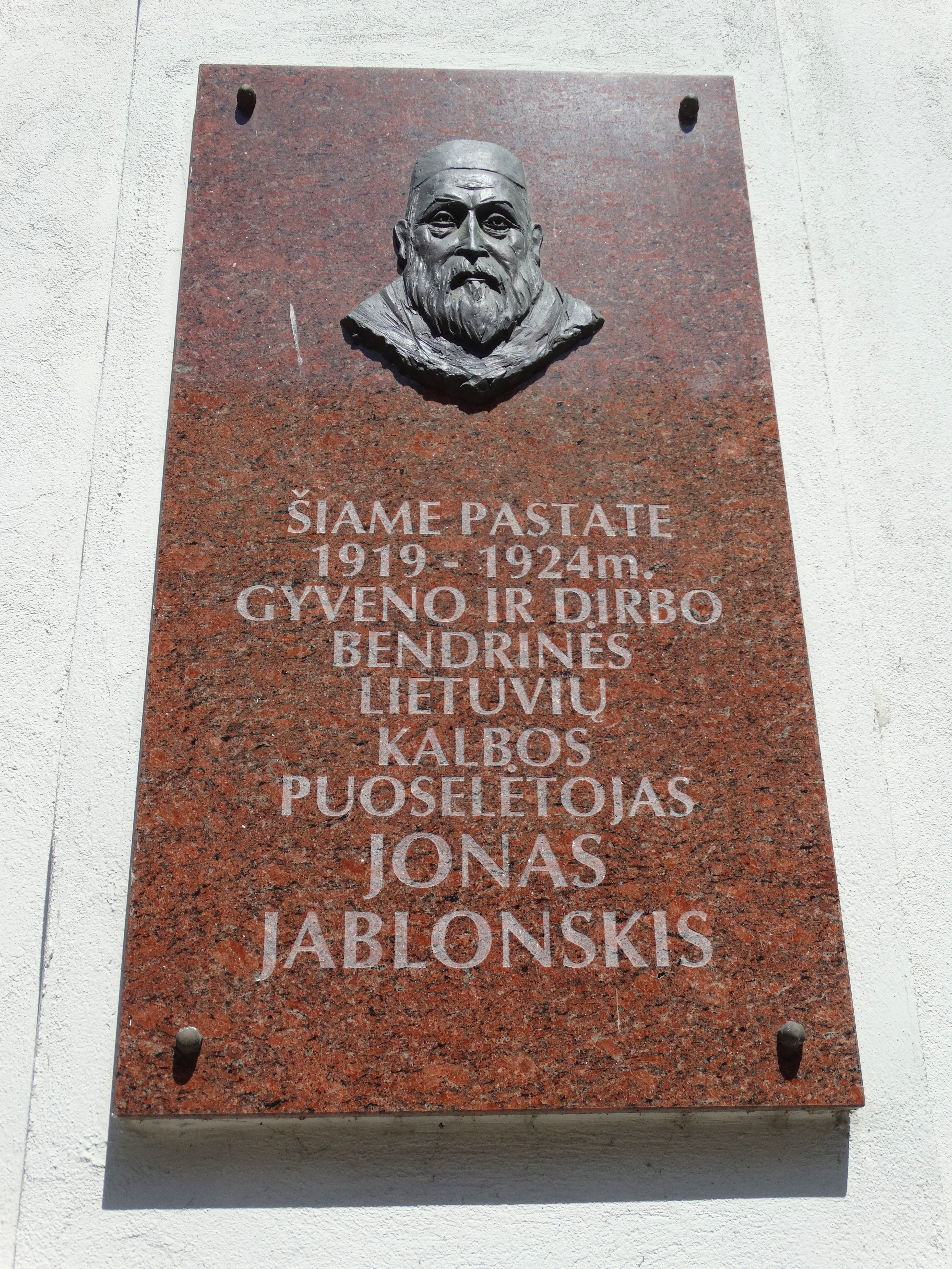 Plaque to Jonas Jablonskis, Kaunas, Lithuania